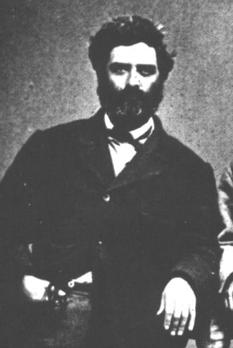 Tomas Avila Sanchez (1826-1882), soldier, sheriff and public official, was on the Los Angeles County, California, Board of Supervisors and was a member of the Los Angeles Common Council, the legislative branch of the city. Other information This is a crop of one person from a photo that had two people in it.